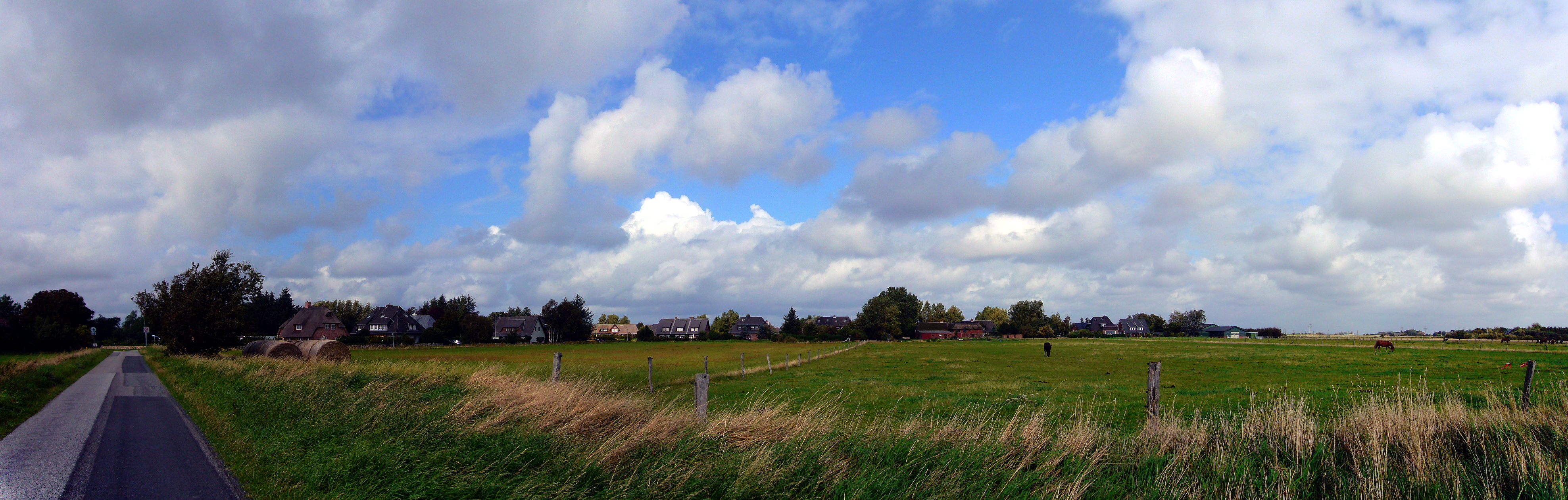 Panorama of the village of Archsum, Sylt, Germany